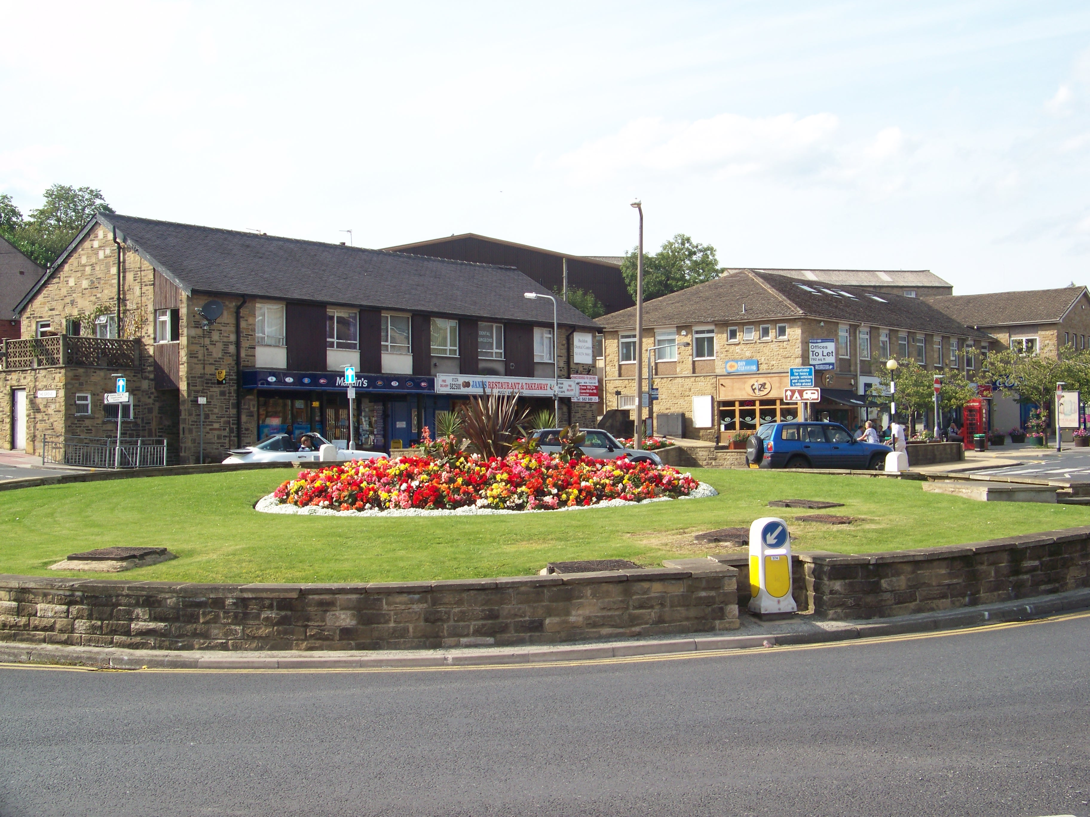 The Browgate roundabout, Baildon, West Yorkshire. The roundabout connects the streets of Browgate, Northgate, Westgate, The Grove and Hall Cliffe. The photograph was taken on the afternoon of Saturday 22nd August 2009.